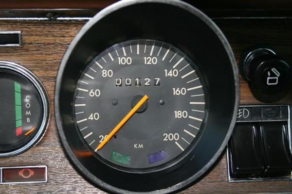 odometer of brazilian chevrolet opala